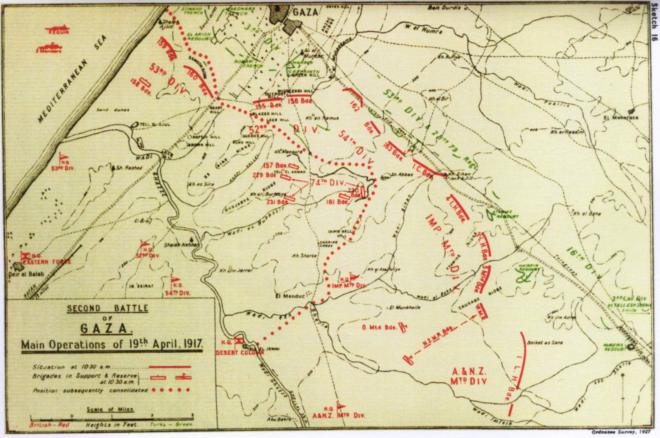 Falls Sketch Map 16 Second Battle of Gaza Other information Crown copyright